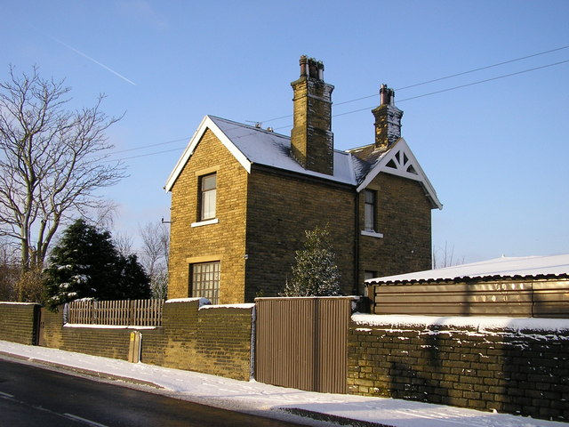 The former Laisterdyke Station House, New Lane, Bradford